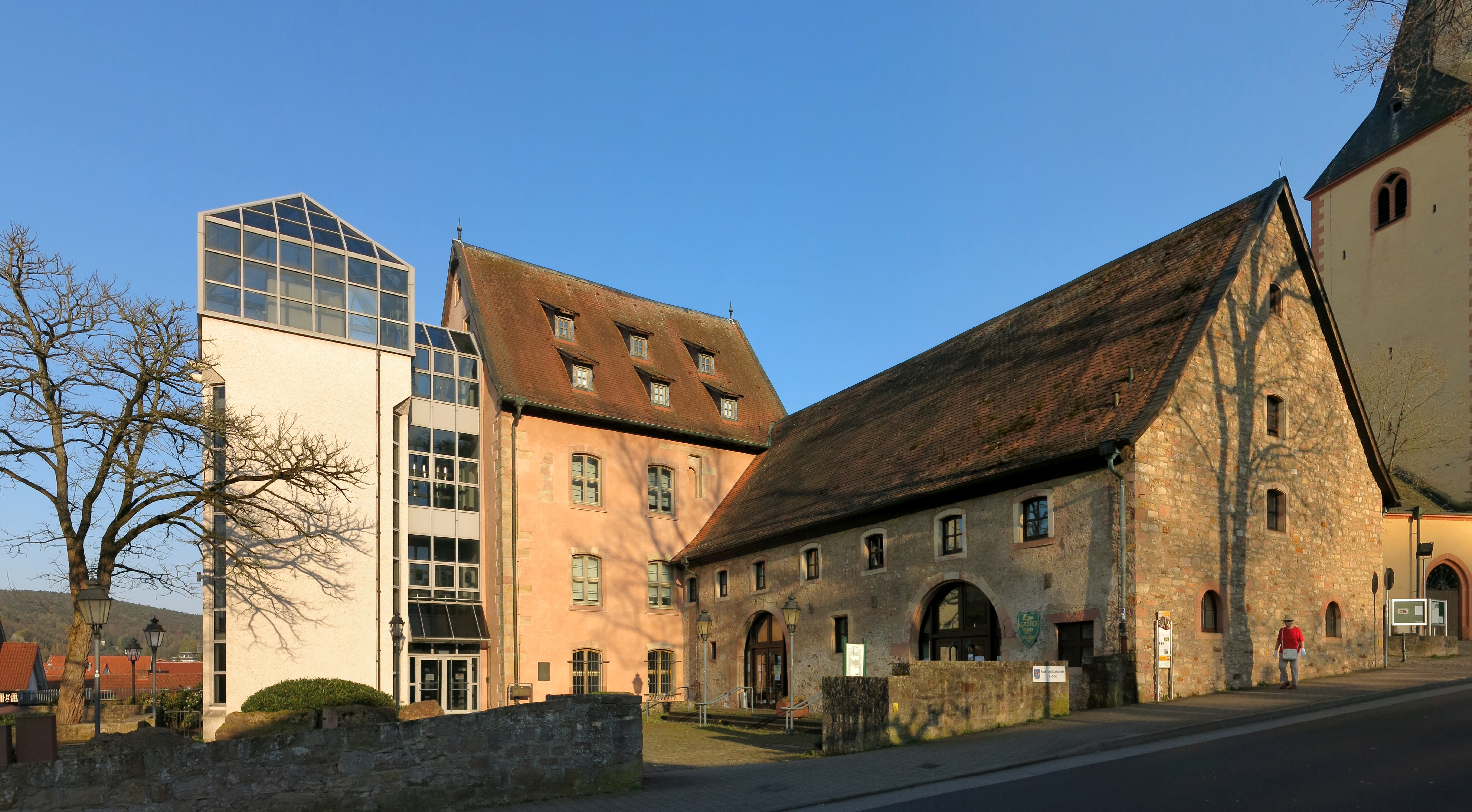 Museum and House of the Guest in Bad Orb, formerly castle complex